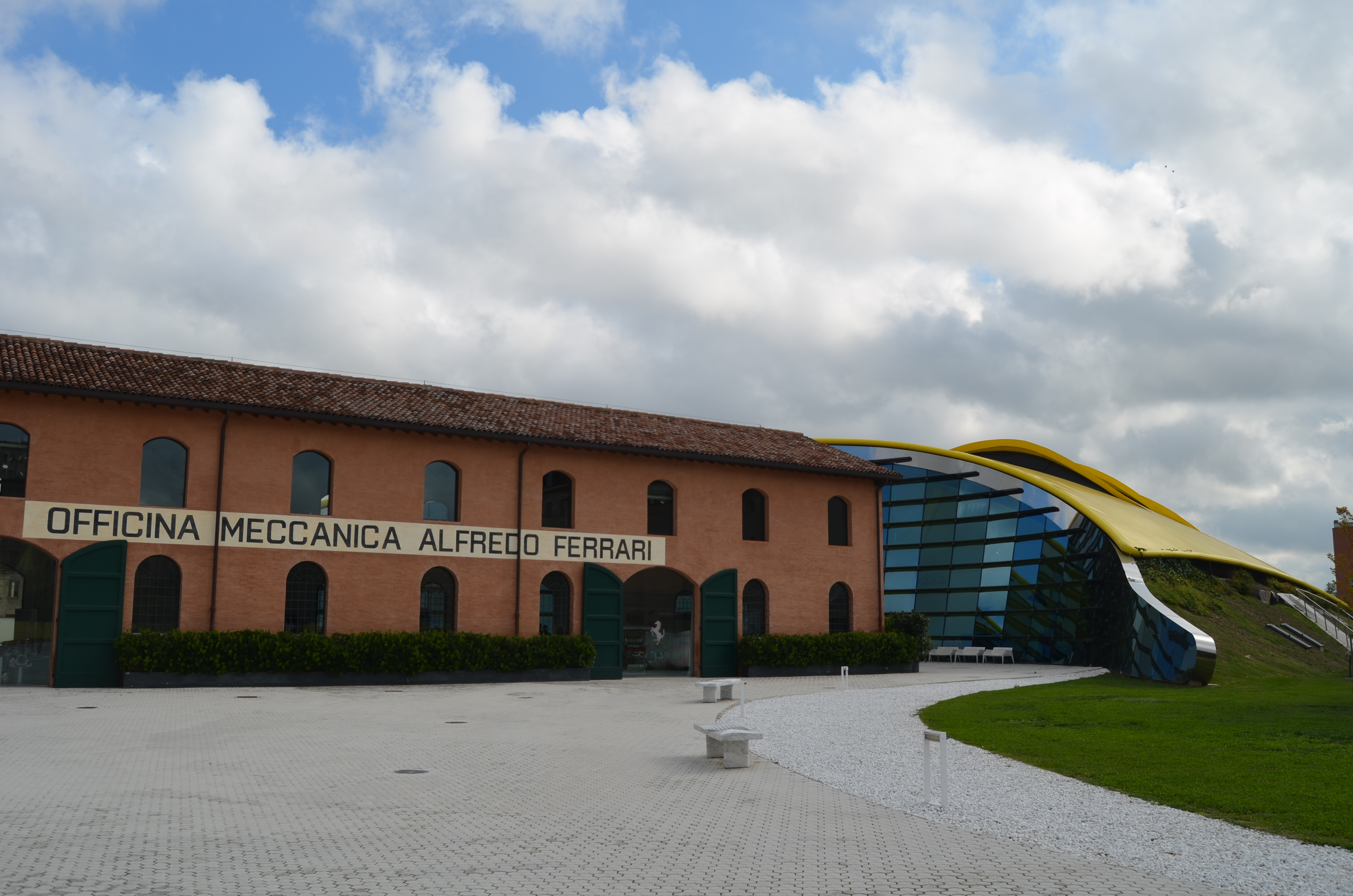 A workshop of dreams